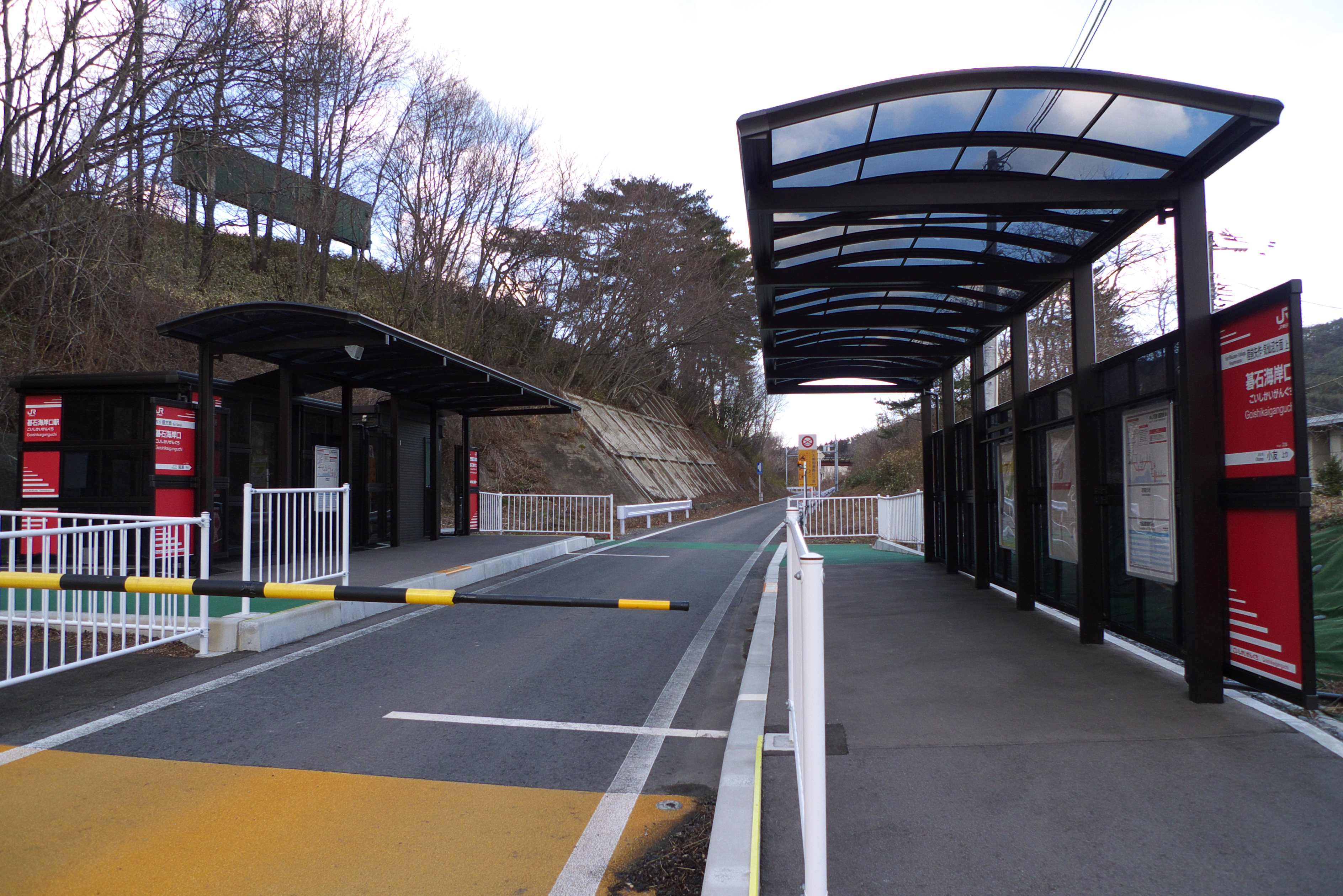 Goishikaiganguchi Station on the Ofunato Line BRT in Ofunato City, Iwate Prefecture, Japan